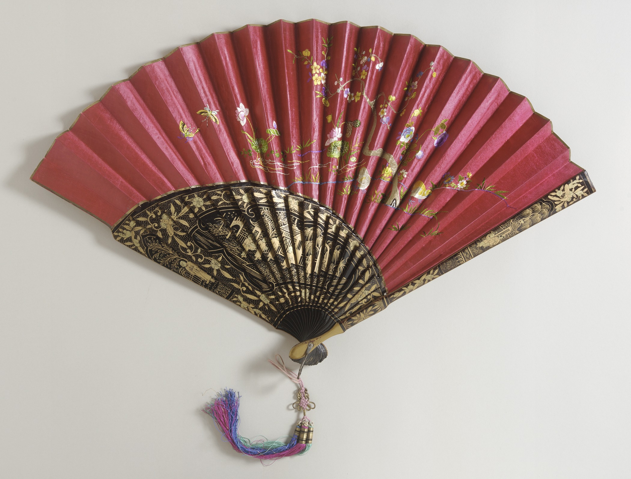 China, circa 1890 Costumes; Accessories a) Fan: Silk satin leaf, wood sticks and guards; b) Box: Wood, painted silk lining Evangeline D. Walker Bequeest (M.78.108.6a-b) Costume and Textiles